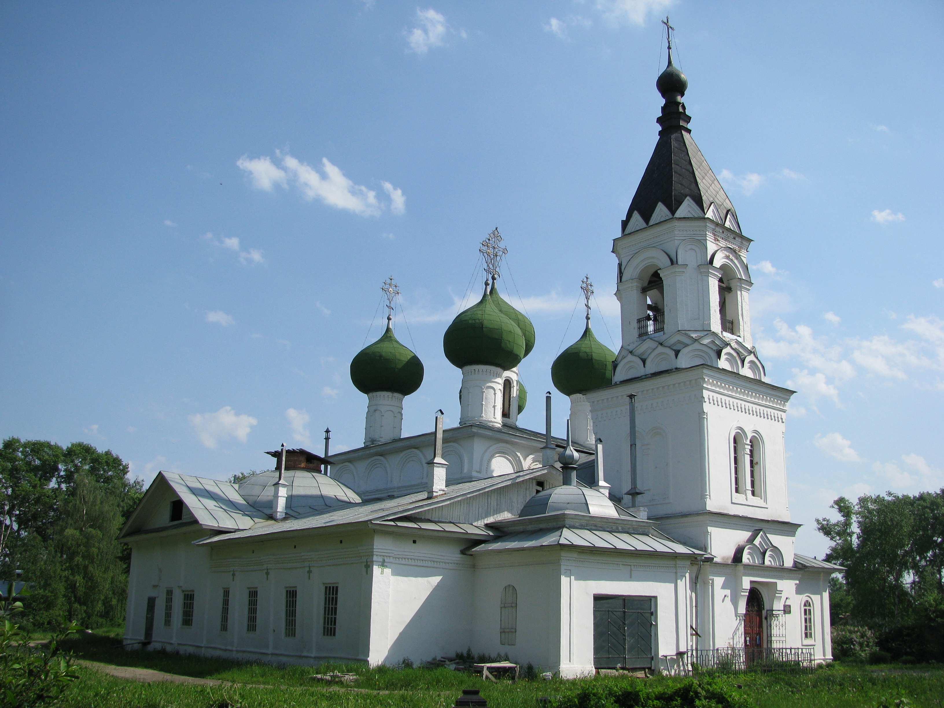 Dormition church in Gorny monastery in Vologda